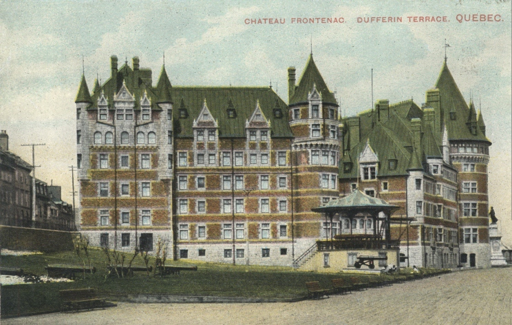 Postcard of the Chateau Frontenac and Dufferin Terrace, Quebec City, Canada.